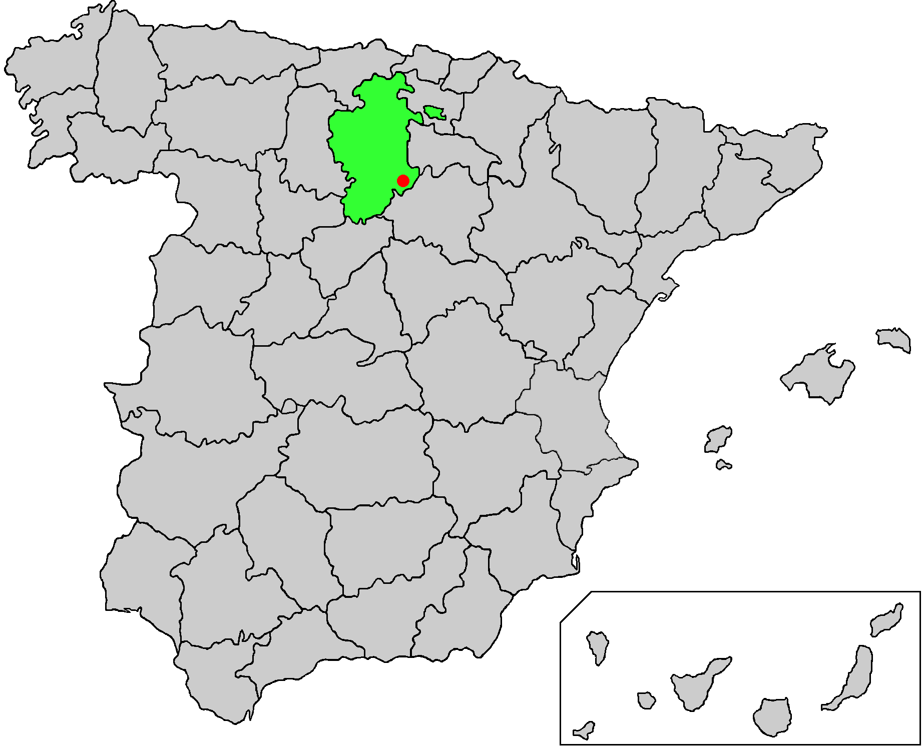 Map of Spain with the province of Burgos highlighted and the location of Palacios de la Sierra indicated as a red dot. Created by Mark Somoza.